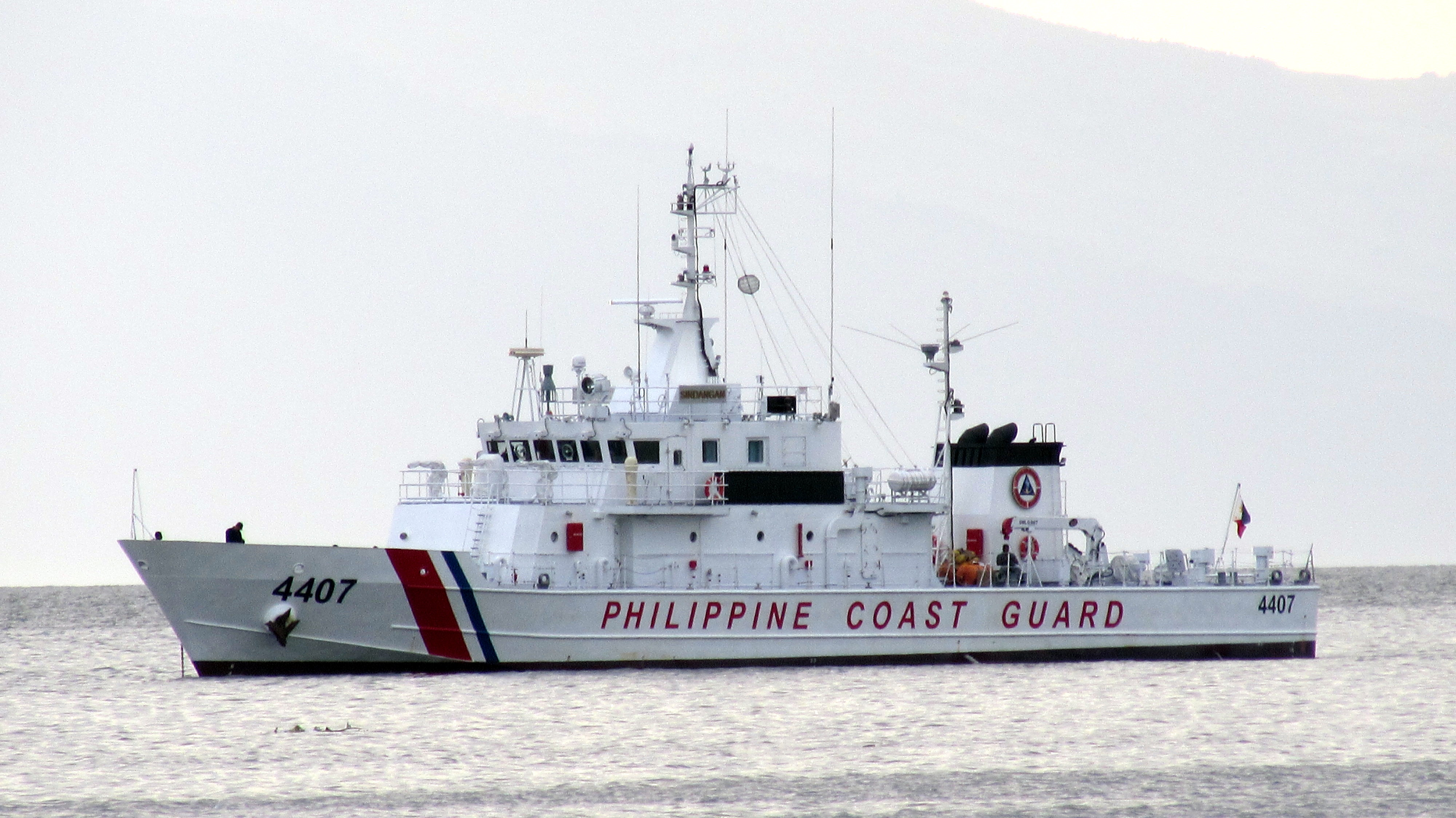 A side view of the BRP Sindangan (MRRV-4407), a Parola class Multi-Role Response Vessel (MRRV) of the Philippine Coast Guard guarding the Manila Bay during the 31st Association of South East Asian Nation (ASEAN) Summit.